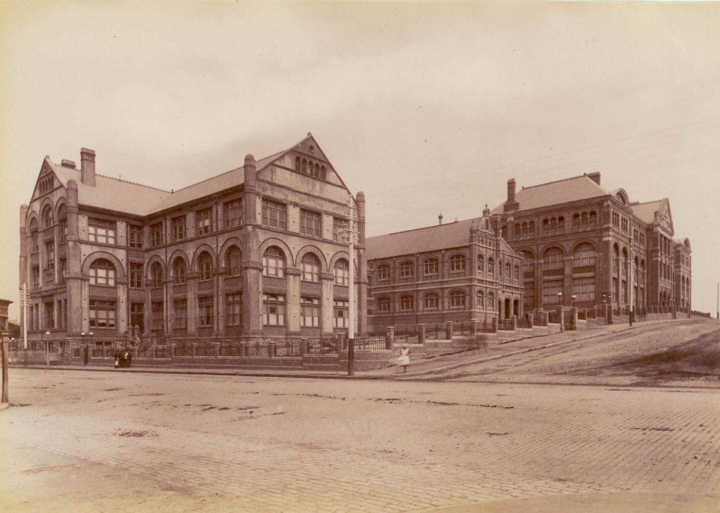 The Sydney Technical College, now part of the Ultimo Campus of the Sydney Institute of TAFE. Corner of Harris Street and Mary Anne Street. Original: Photograph. 1 albumen photoprint ; 14 x 20 cm. Call Number: PXE 711 / 252 Digital Order Number: a116252